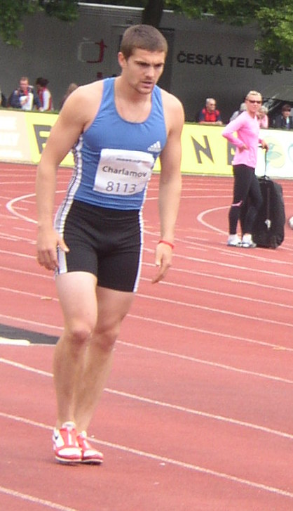 Athlete Vasiliy Kharlamov of Russia prepares for his attempt in long jump during men's decathlon at 4th edition of the TNT - Fortuna Meeting (IAAF World Combined Events Challenge Meeting, Sletiště Stadium, Kladno, Czech Republic, 15 June 2010, 13:24).